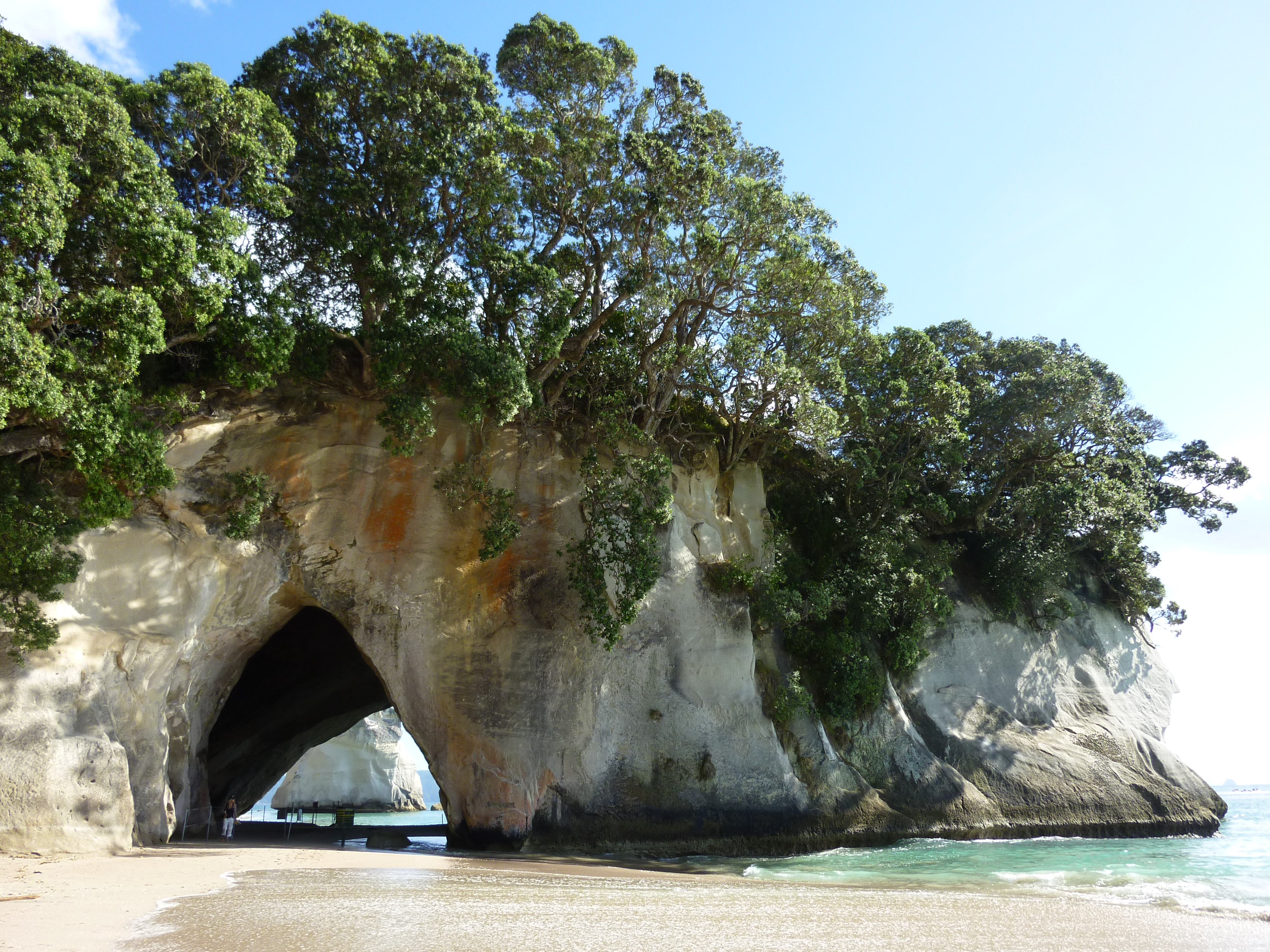 Cathedral Cove Arch, seen from Mare's Leg Cove